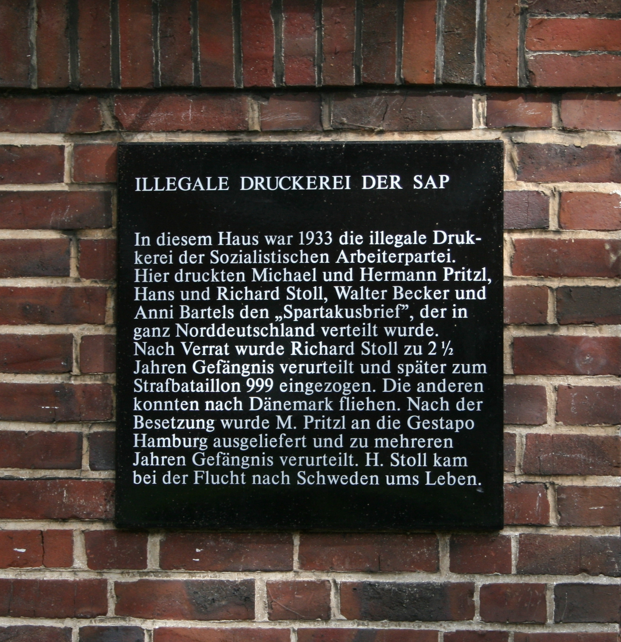 Memorial of the printing place of the Socialist Workers' Party of Germany (SAP) in 1933 in Hamburg-Bergedorf, where the Socialists printed the Spartakusbrief